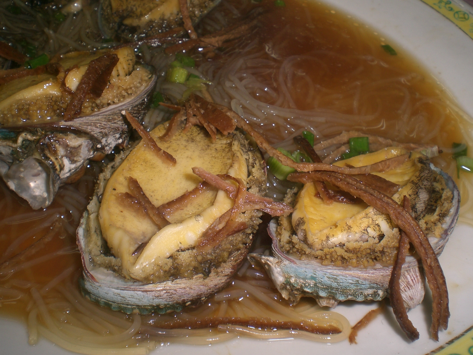 中國食品 蒸 鮑魚仔 陳皮